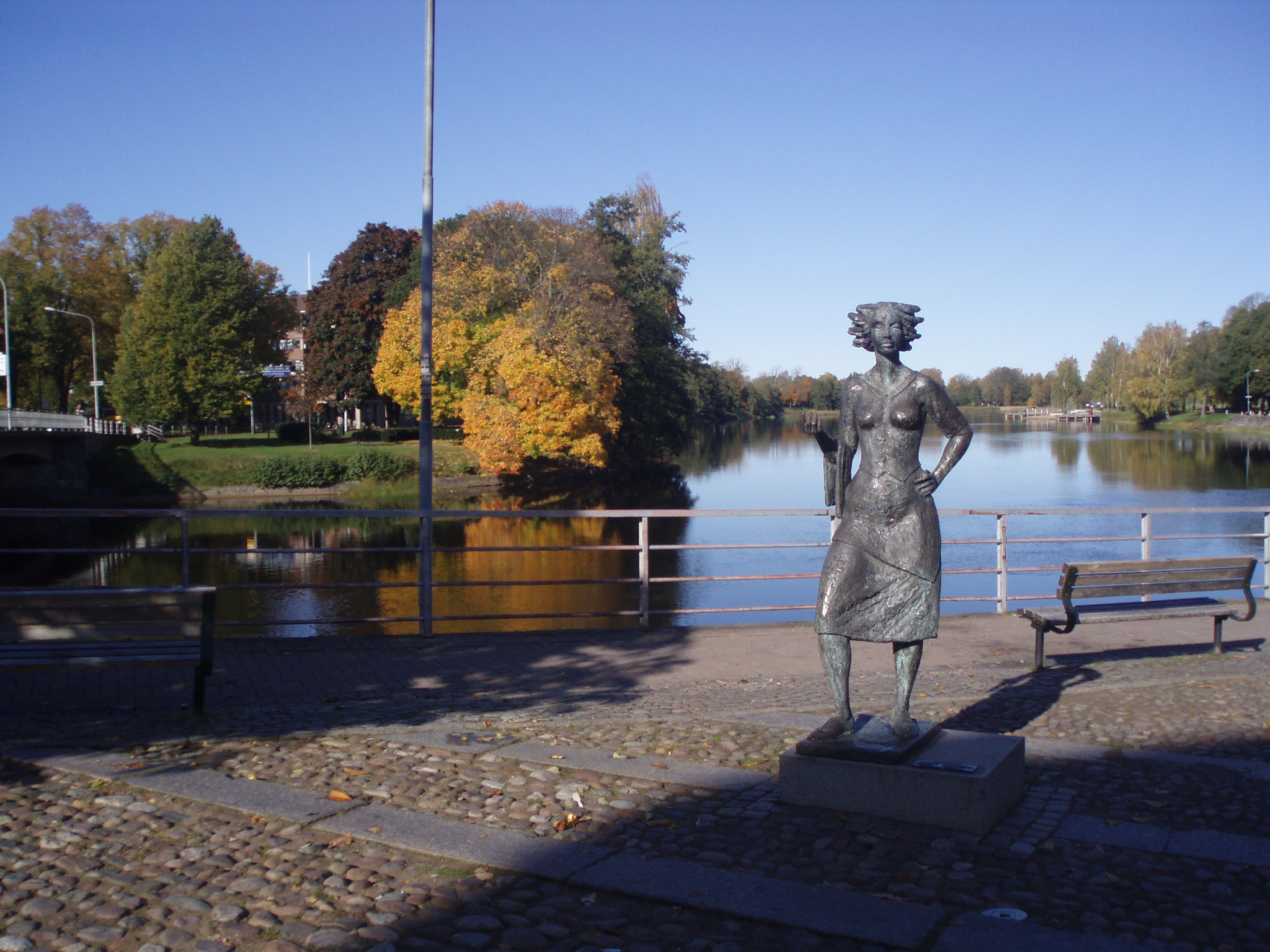 The statue of the maiden Sola i Karlstad